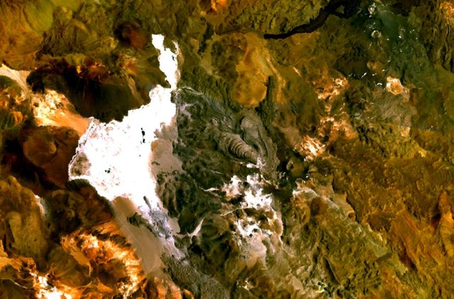 The Cerro Bayo volcanic complex lies along the Chile-Argentina border east of the Salar de Gorbea, the light-colored area at the left-center portion of this NASA Landsat image. A young well-preserved crater can be seen NE of an older snow-covered center (bottom-center). A younger northern center along the national border has a well-preserved 400-m-wide crater. The 5401-m-high summit of the Cerro Bayo complex, located west of the border in Chile, is the source of two viscous dacitic lava flows with prominent levees that traveled to the north.